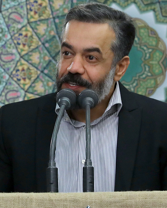 Maddahs meeting Ali Khamenei (13951229 2536010) - Mahmoud Karimi